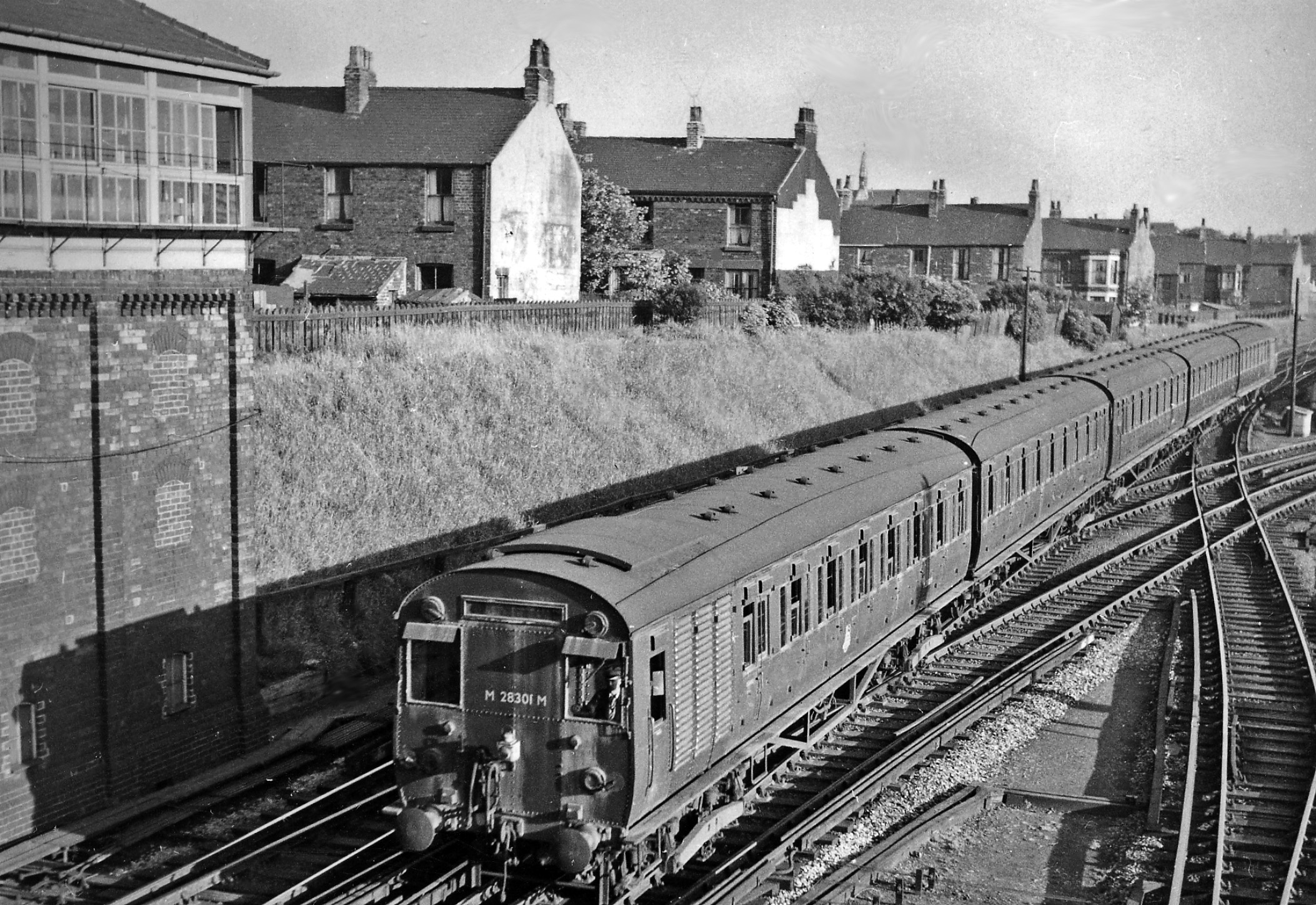 Liverpool Exchange - Ormskirk electric train approaching Aintree Sefton Arms station. View southward, towards Liverpool. The train is an LMS 630v EMU of compartment stock.